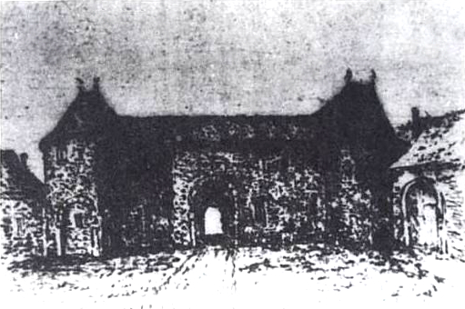 Herstal Castel vers 1870